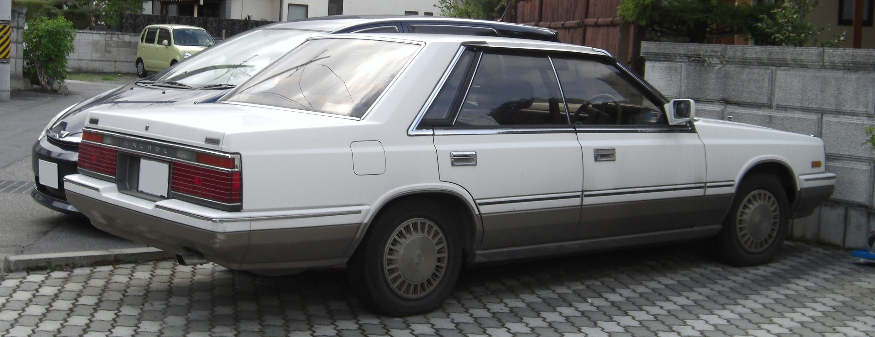 NISSAN Laurel